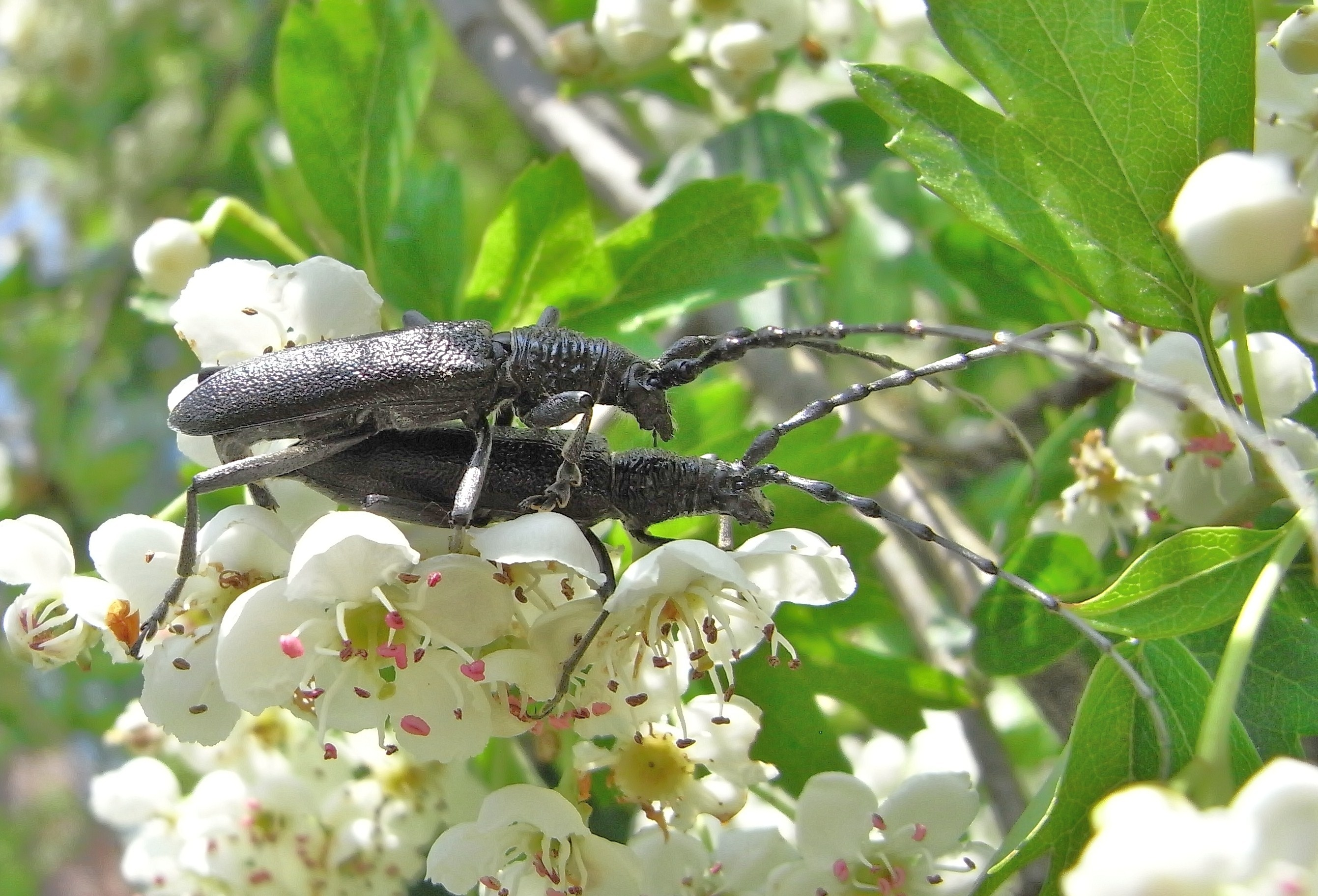 Cerambyx scopolii on Crataegus from Hungary at 2010-05-01 Ricoh R8